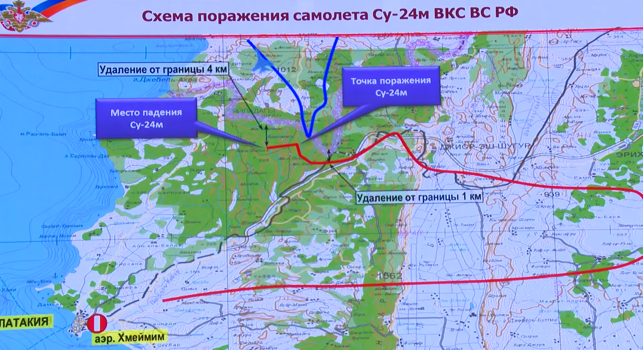 Russian and Turkish jet flights released by the Russian Ministry of Defence. The red line represents the Russian Su-24M flight path while the blue line is the Turkish F-16 flight path. Dashed white lines represent the border. According to this map, the Turkish F-16 went into Syrian airspace temporarily and shot down the Su-24M inside Syrian territory. Top right description: "Point where Su-24M was hit". Bottom right description: "Distance from the border, 1 km". Bottom left description: "Area where Su-24M crashes". Top left description: "Distance from the border, 4 km".